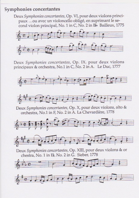 St. Georges: 8 Symphonies Concertantes